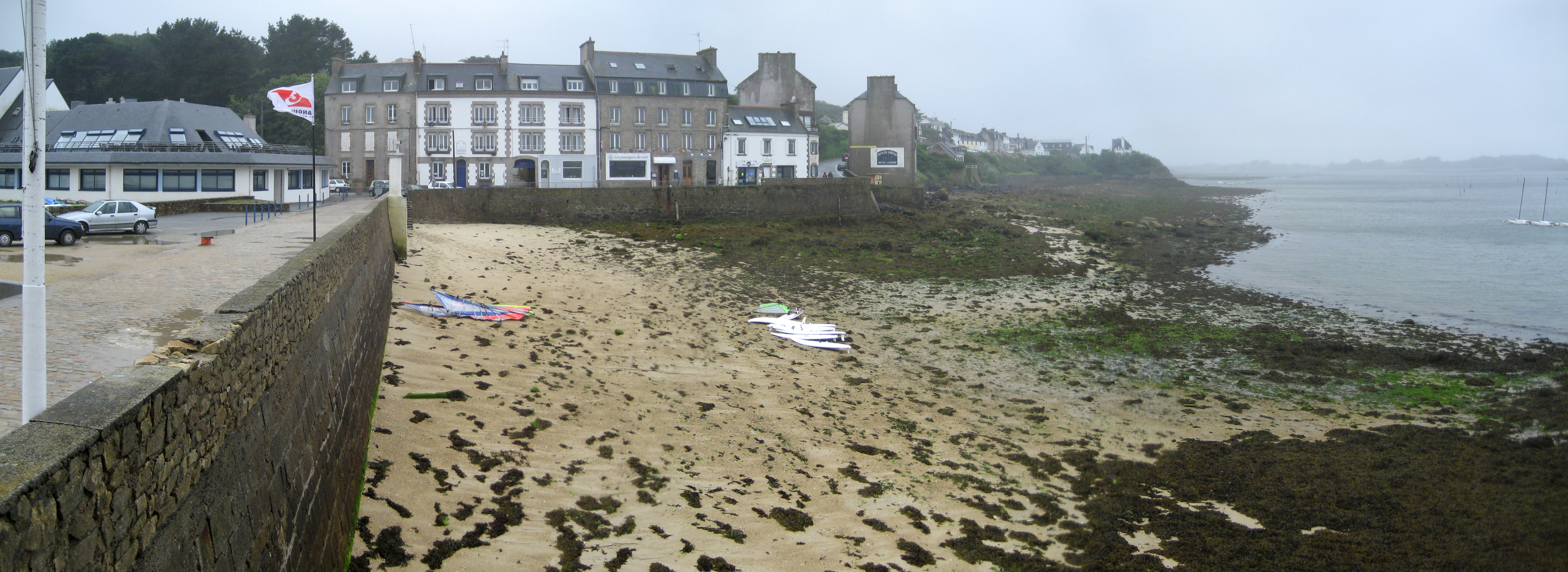 L'Aber Wrac'h, Beach and Coast